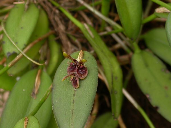 Another color form, leaves more oval